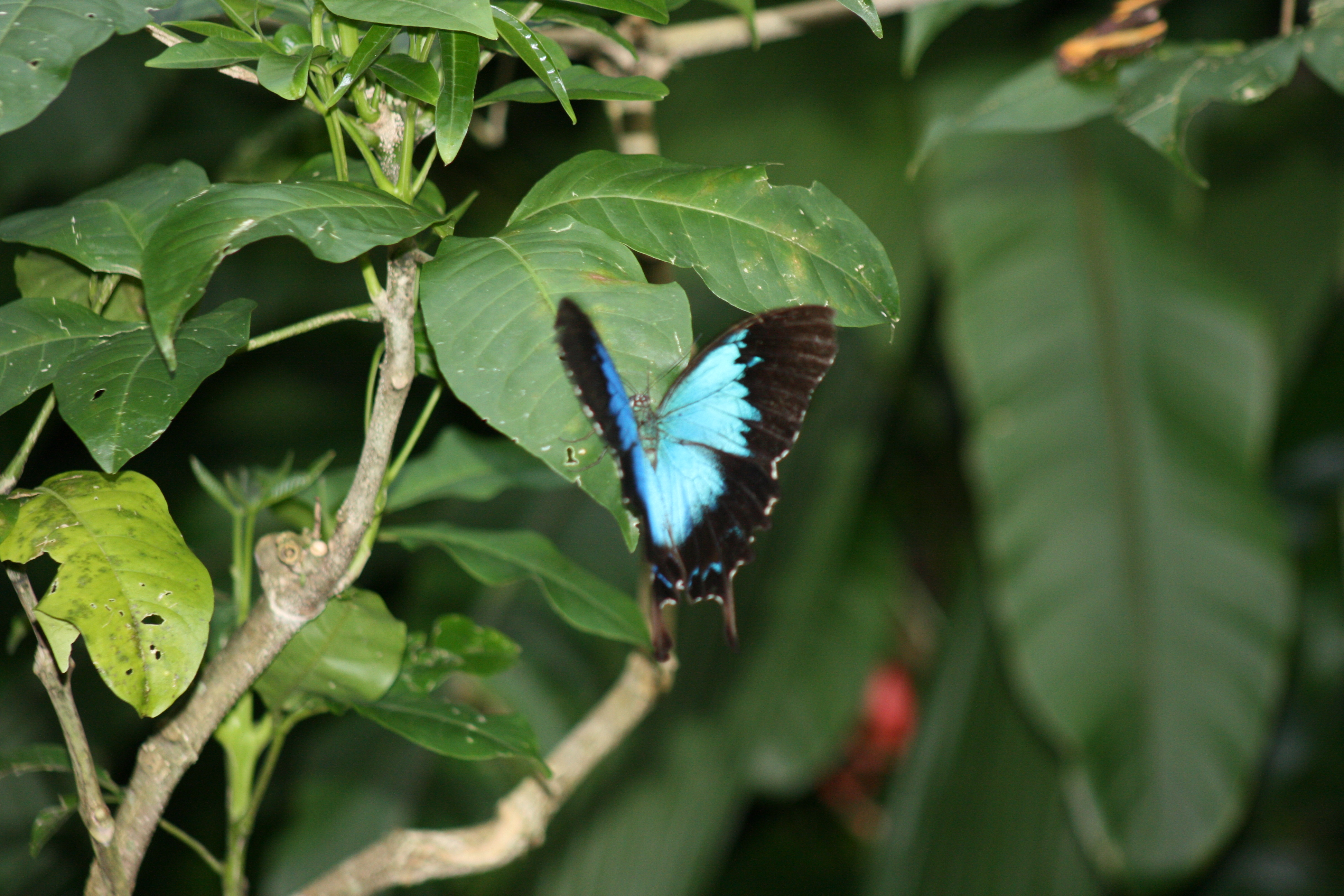 Papilio ulysses at Kuranda Butterfly Sanctuary